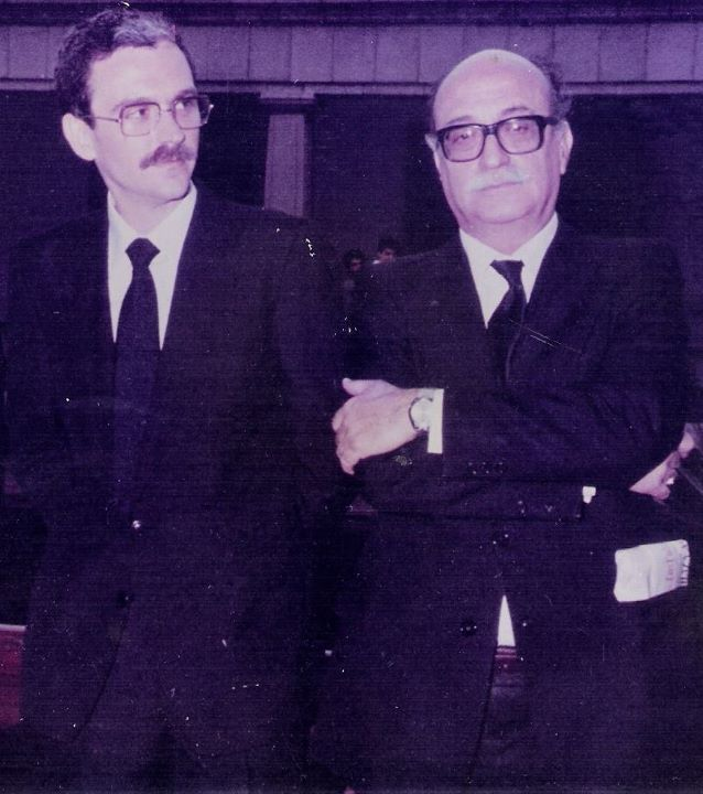 Fernando & Quino Sagaseta